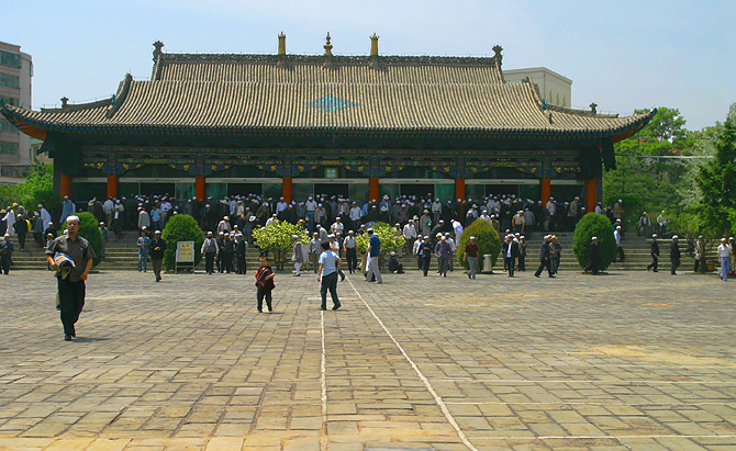 After prayers at Dongguan mosque, Xining, Qinghai, China